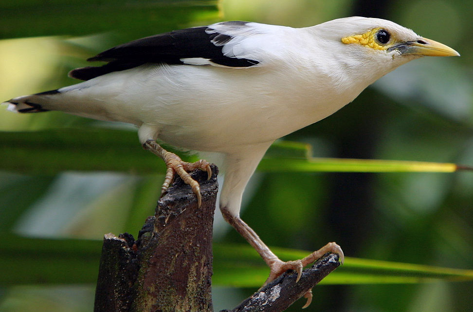 Black-winged Starling